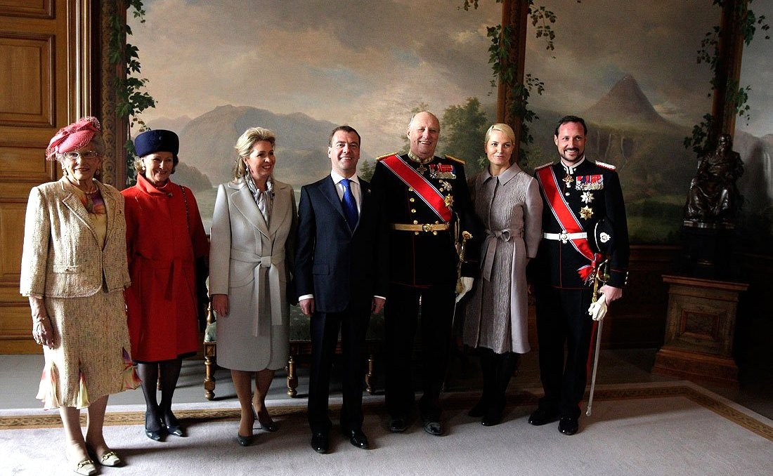 Presient Dmitry Medvedev's two-day state visit to Norway has begun. Crown Prince of Norway Haakon Magnus, Crown Princess Mette-Marit of Norway, King Harald V of Norway, Dmitry Medvedev and his wife Svetlana, Queen Sonja and Princess Astrid (right) during the official greeting ceremony in the Royal Palace.